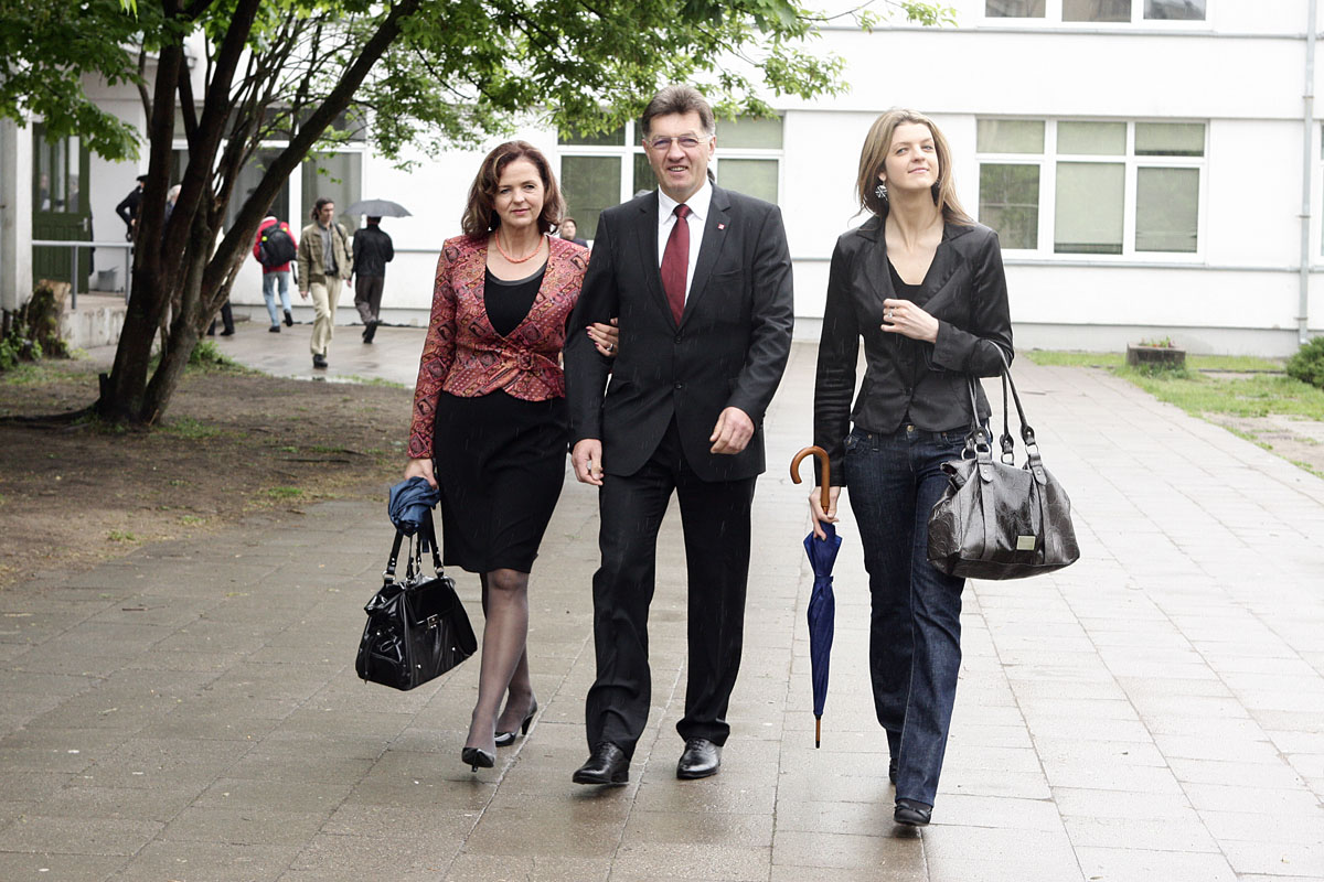 Algirdas Butkevičius in the voting station at Presidential elections in Lithuania 2009-05-17